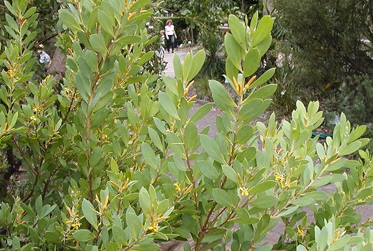 Persoonia lanceolata, Royal Botanic Gardens, Sydney - photo-Cas Liber